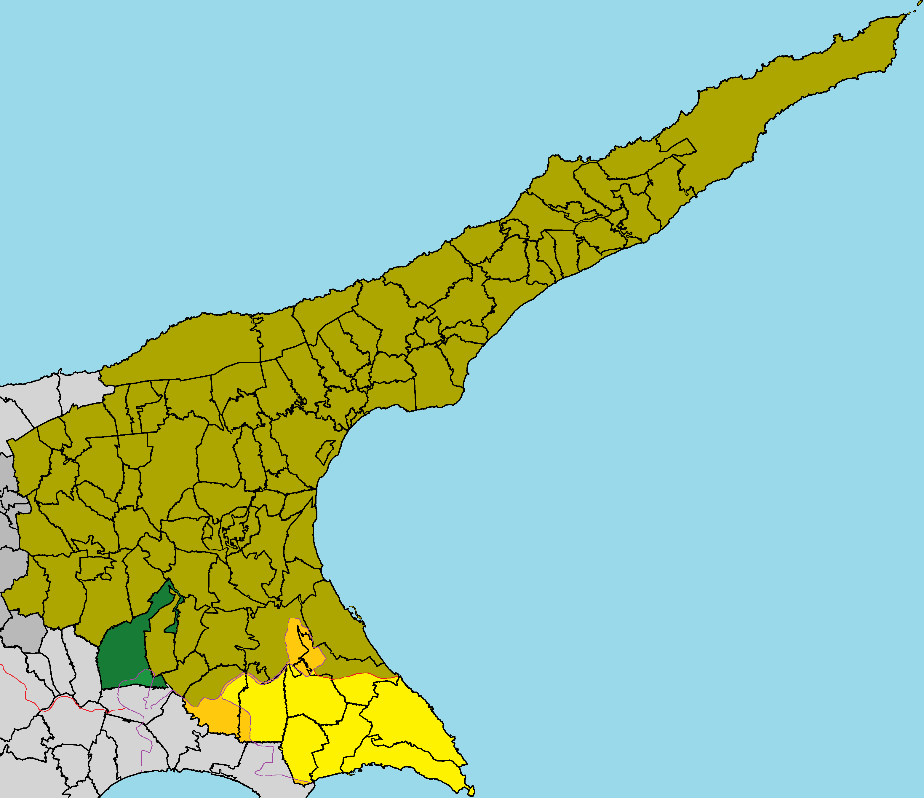 Lysi in Famagusta District (de jure).